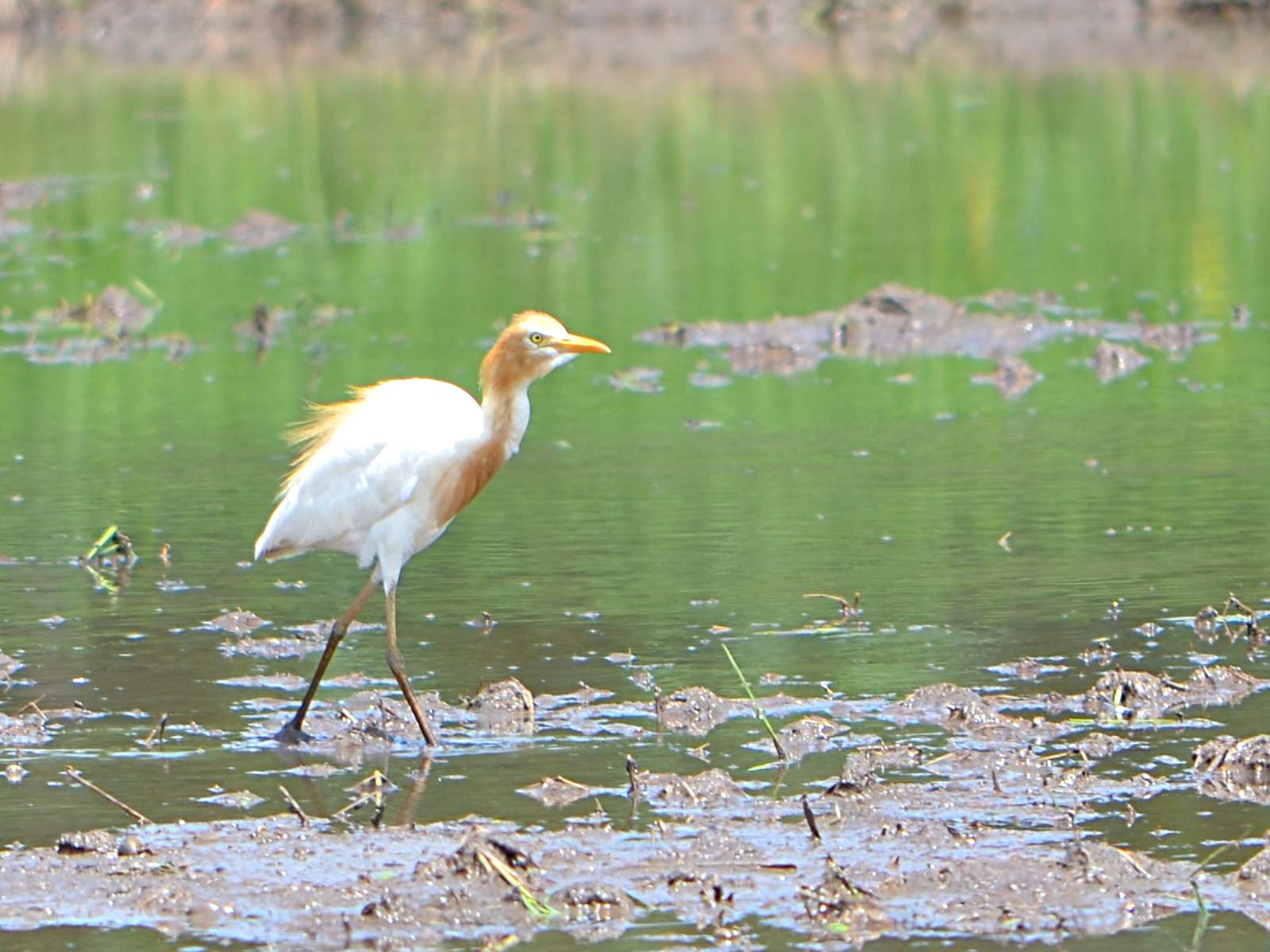 Cattle Egret in breeding plumageBahasa Indonesia: Kuntul Kerbau pada masa berbiak